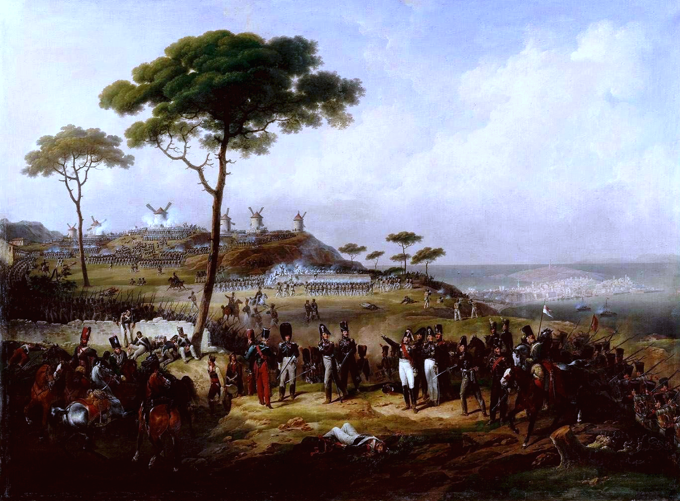 Episode of the French intervention in Spain 1823.